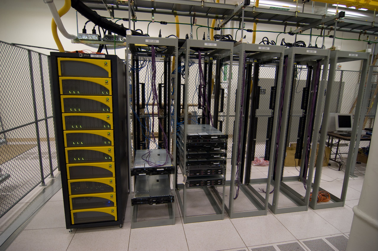 The north side